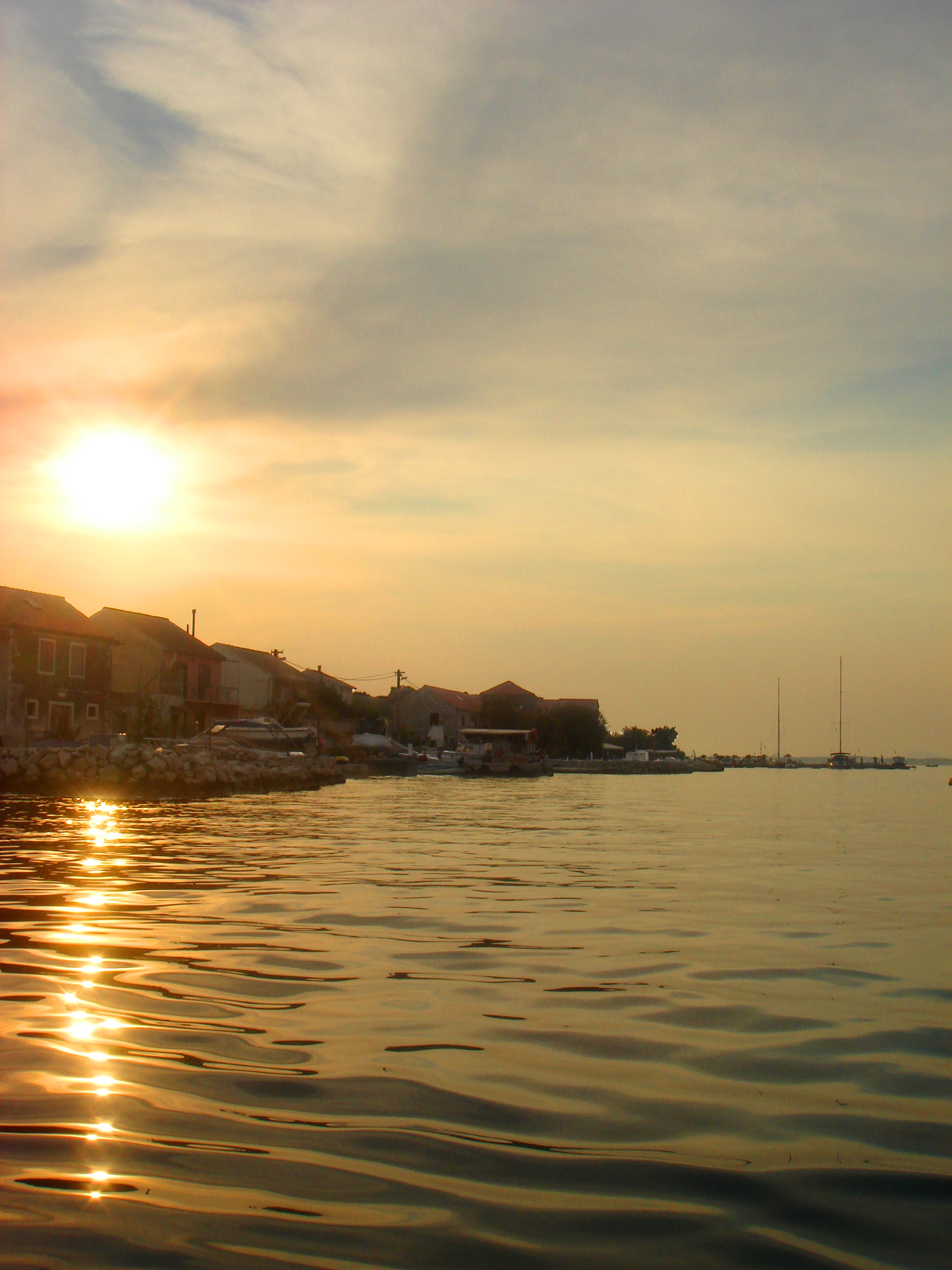 Sunset over Krapanj, picture taken by Tomislav Vukelja